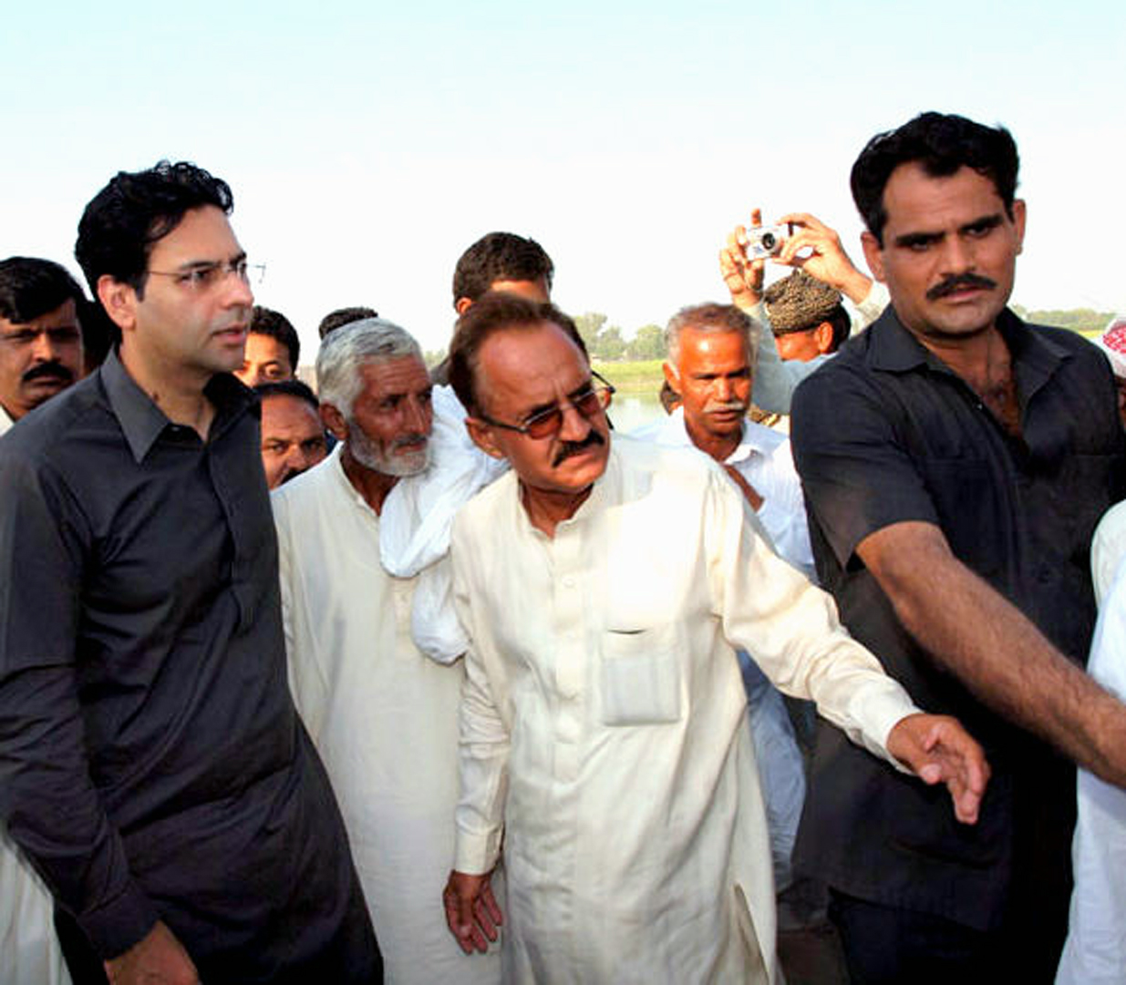 Ch Moonis Ehali in Chakrian during inaguration of Sui Gas supply in neighbor village, Miana Kot. Political representators of PML(Q) Haji Ghulam Sarwar, Ch Talib Hussain(Ex mayor of UC-Langey) are also seen.